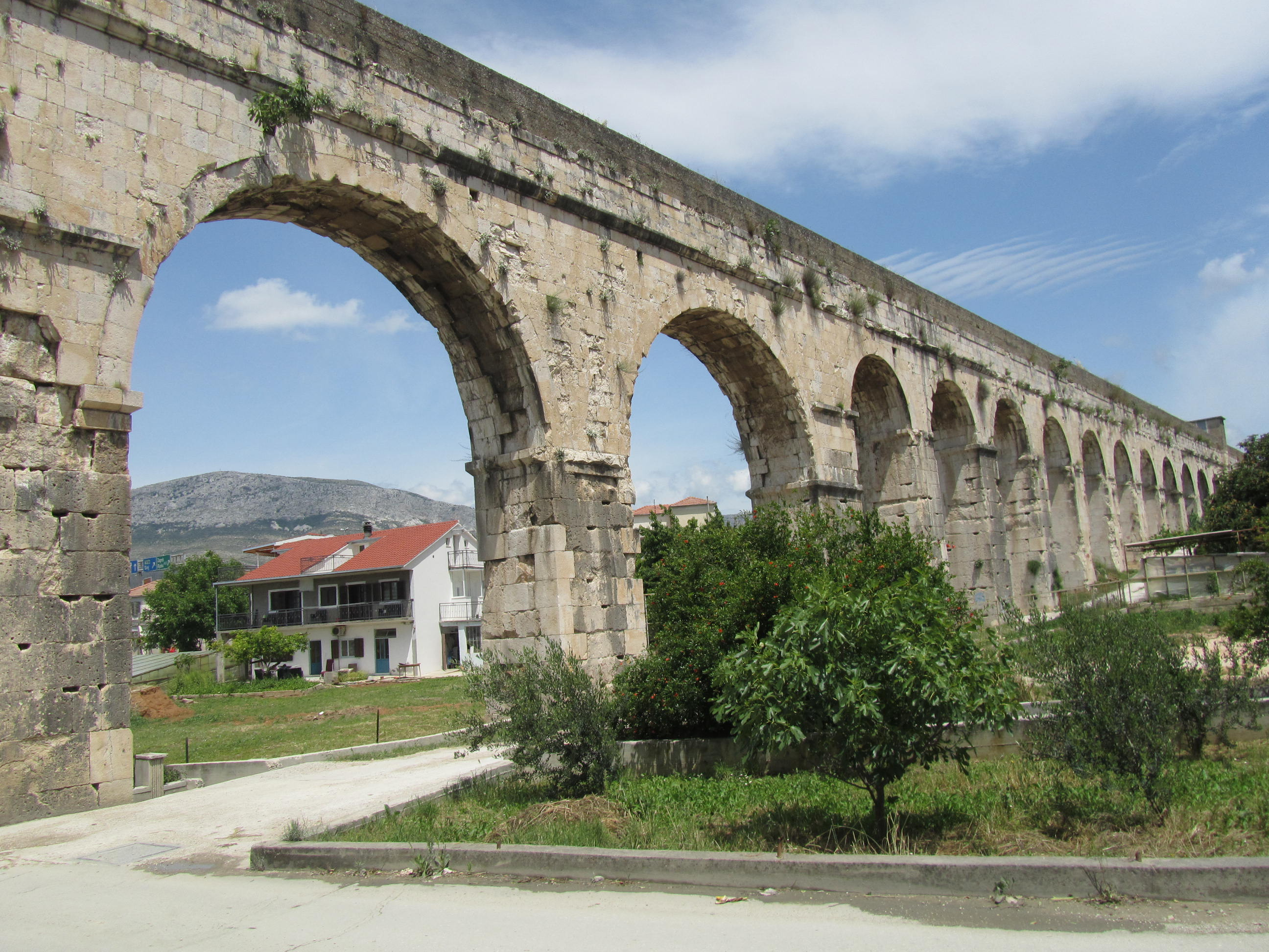 Bridge of the Diocletian aqueduct in Split, also called 'Suhi most' (dry bridge). Only the foundations are Roman, the present view is the 19th century reconstruction